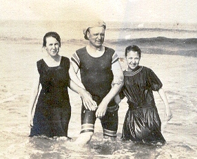 Taken circa 1915, this picture portrays typical bathingsuit wear for that time period.